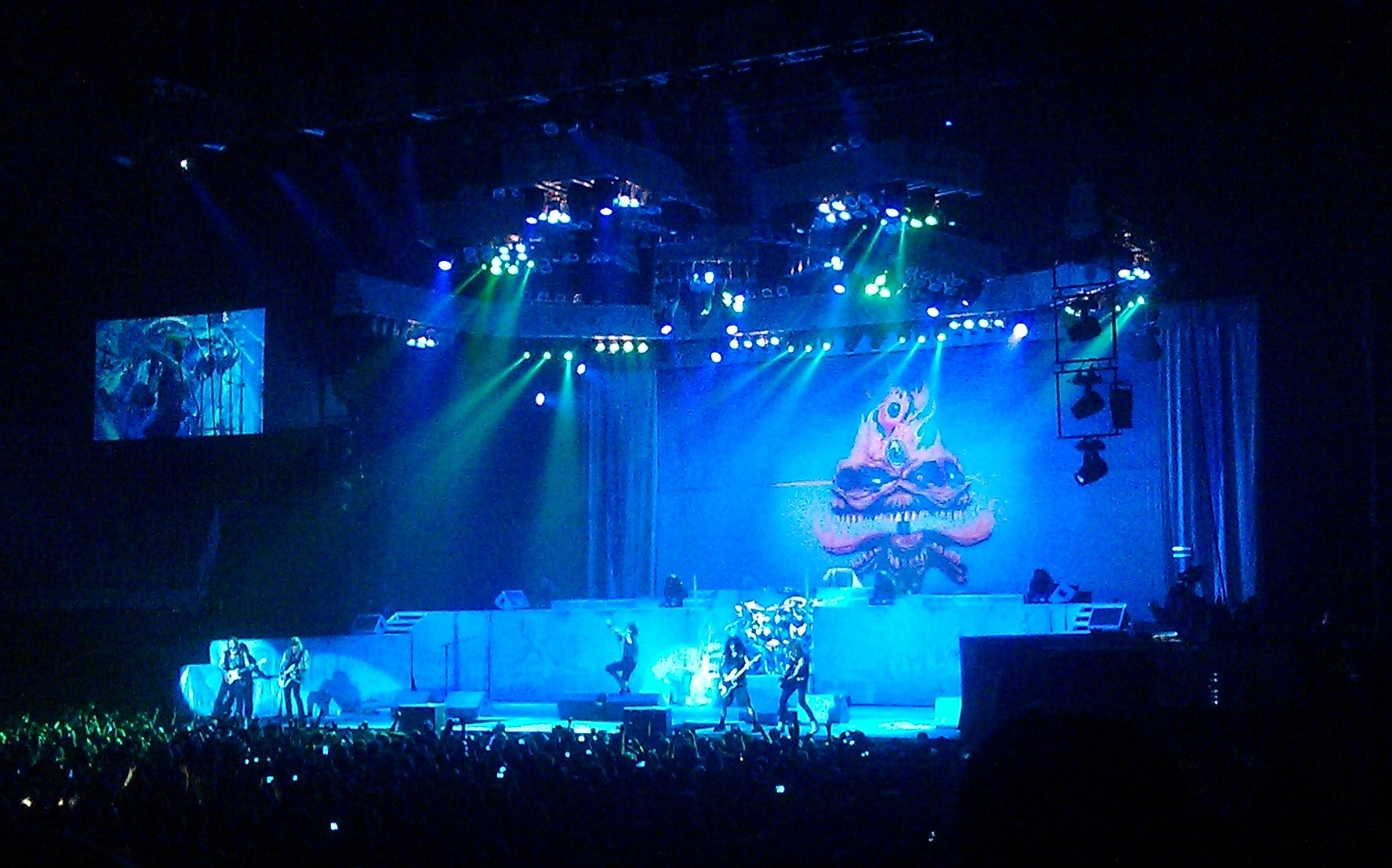 Iron Maiden performing "The Clairvoyant" in London, 4 August 2013